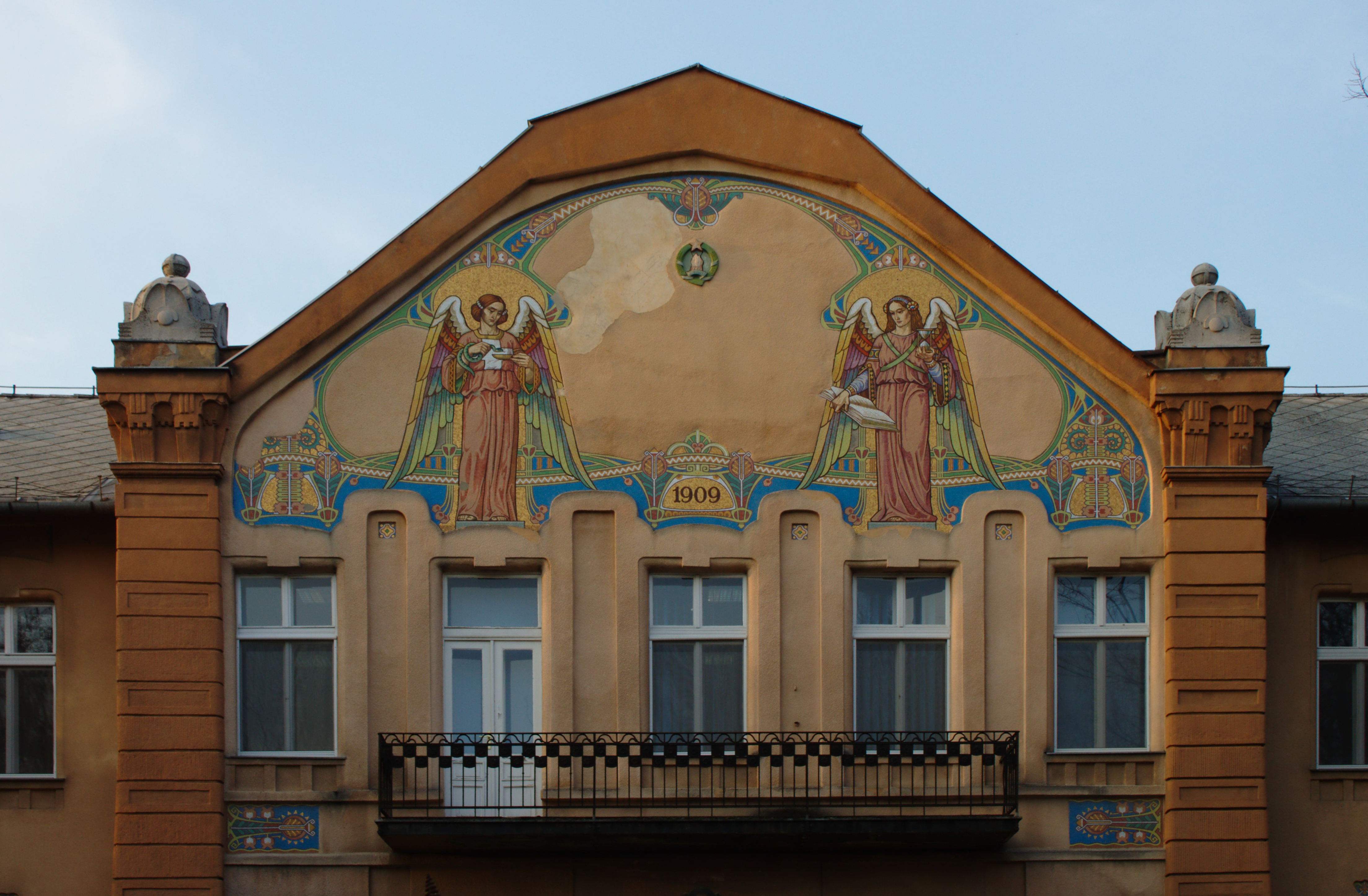 An art noveau mosaic on the front side of the chirurgy institute of Vojvodina in Novi Sad, Serbia